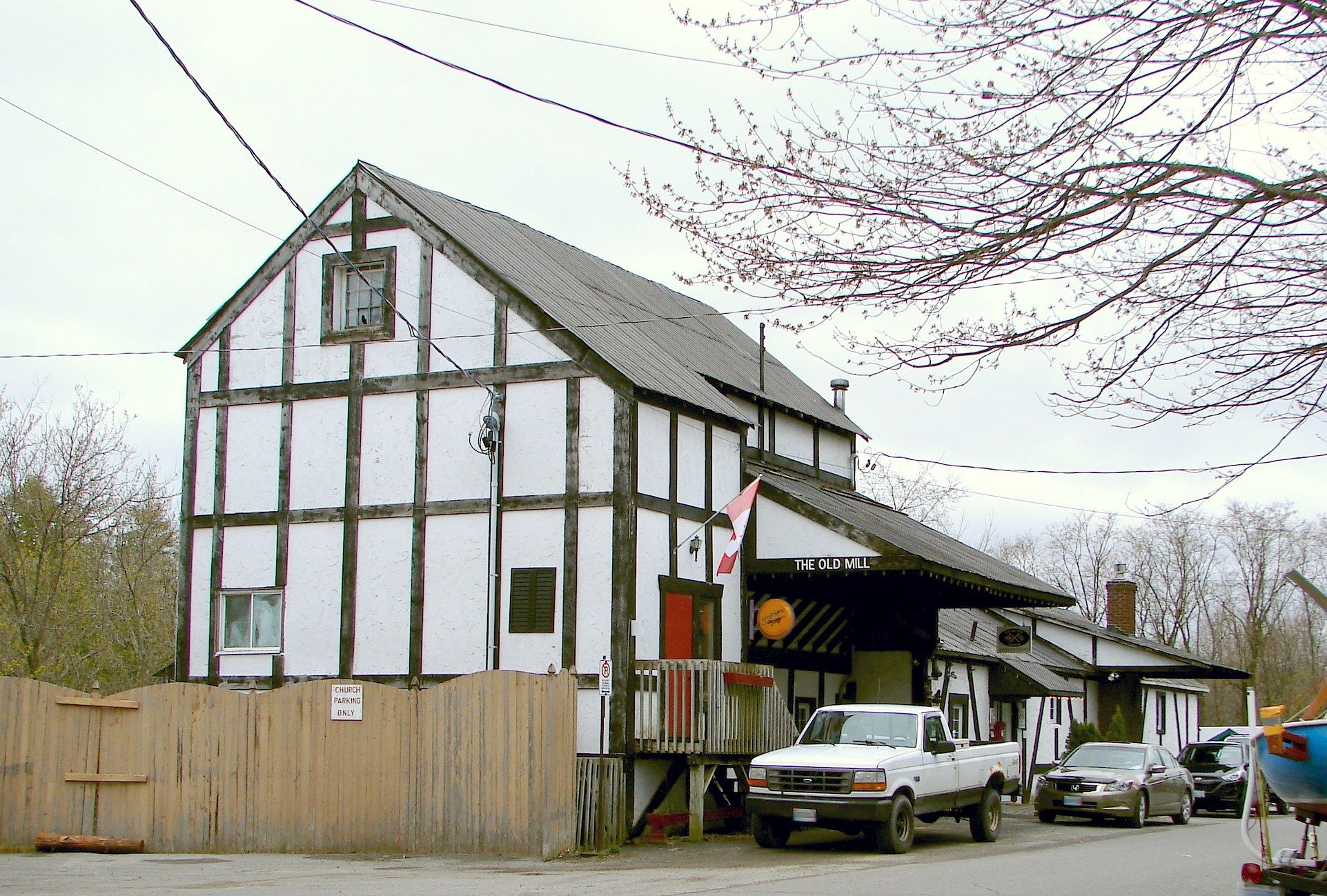 Ashton (on the boundary of City of Ottawa and Lanark County), Ontario, Canada